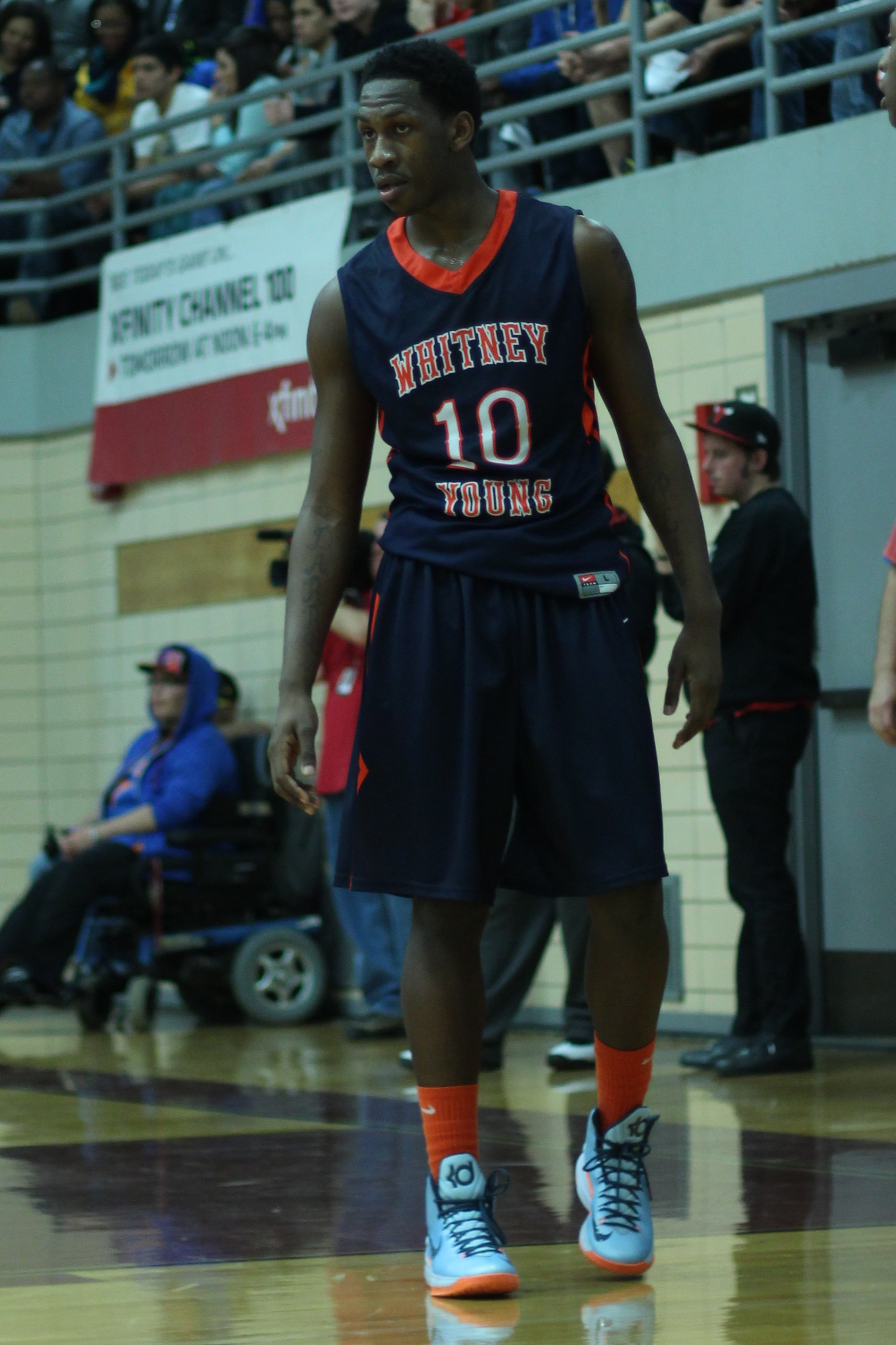 L. J. Peak in the 2013 Illinois High School Association playoffs.